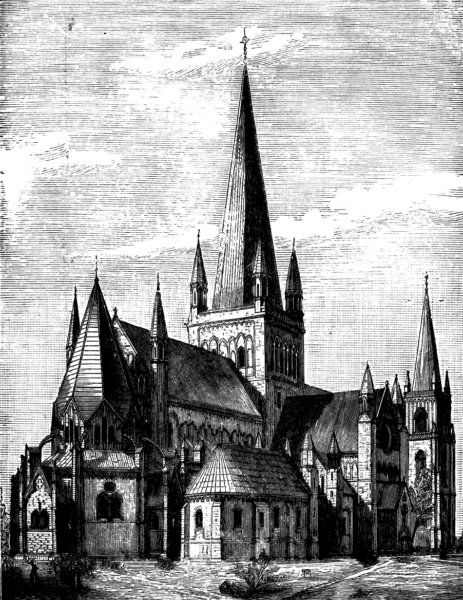 Xylograph of Chr. Christies plan for restoration of Nidaros Cathedral, Trondheim, Norway. Published in O. Krefting 1885.